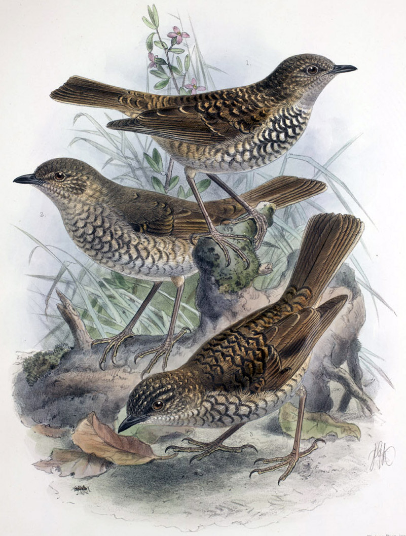 llustration showing Kāmaʻo (Myadestes myadestinus), Phaeornis lanaiensis which is now a synonym of the Lanaʻi Olomaʻo (Myadestes lanaiensis lanaiensis) and ‘Ōma’o (Myadestes obscurus) from Avifauna of Laysan By Lionel Walter Rothschild, 2nd Baron Rothschild (1868–1937) By John Gerrard Keulemans (1842-1912) (Dutch bird illustrator), which was issued from 1893-1900.